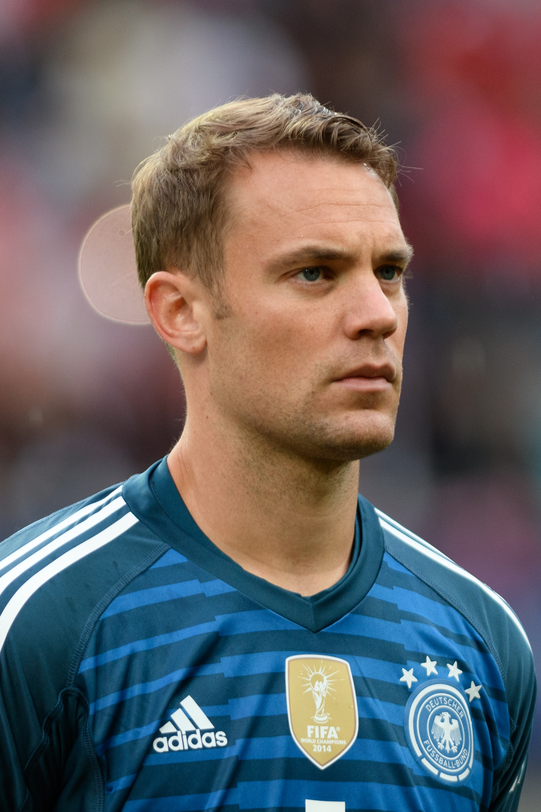 FIFA Friendly Match Austria vs. Germay 2018/06/02 in Klagenfurt/Woerthersee. Picture shows Manuel Neuer (GER).